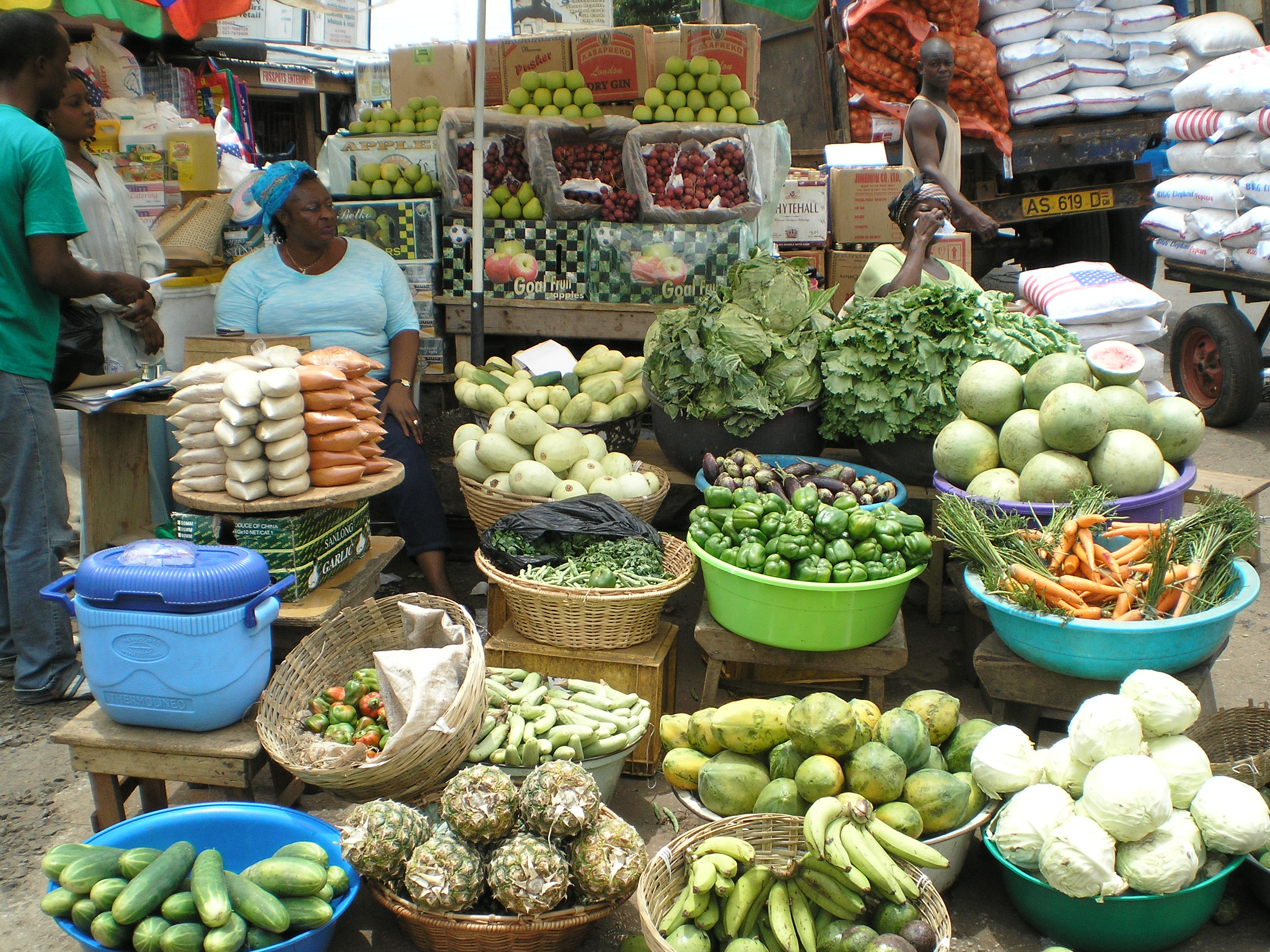 A vegetable seller in the city center of Kumasi, Ghana